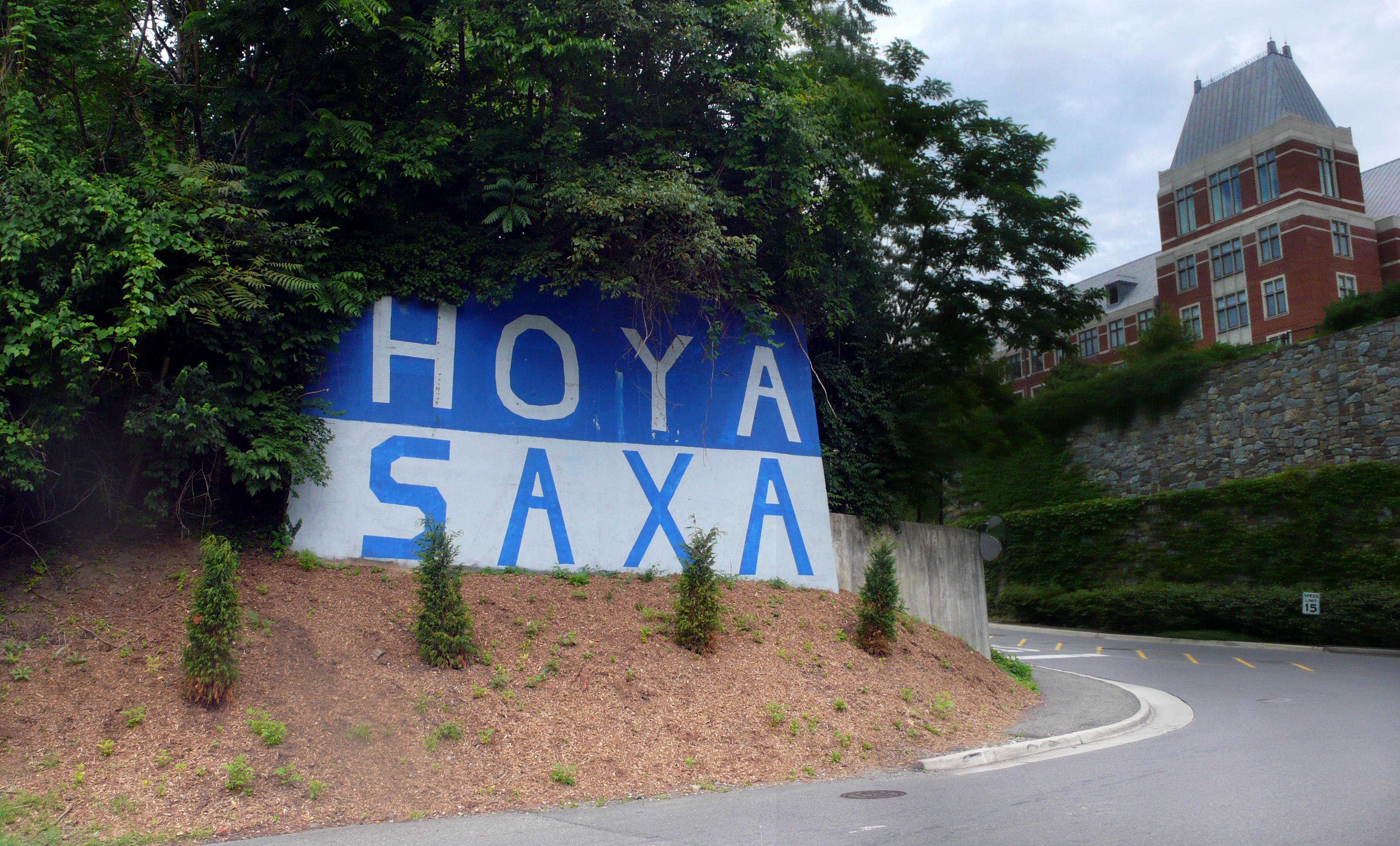 The Hoya Saxa sign painted on an abandoned trolley trestle at the Canal Road entrance of Georgetown University's main campus in Georgetown, Washington, D.C. Also shown is the tower of the Wolfington Hall Jesuit Residence.